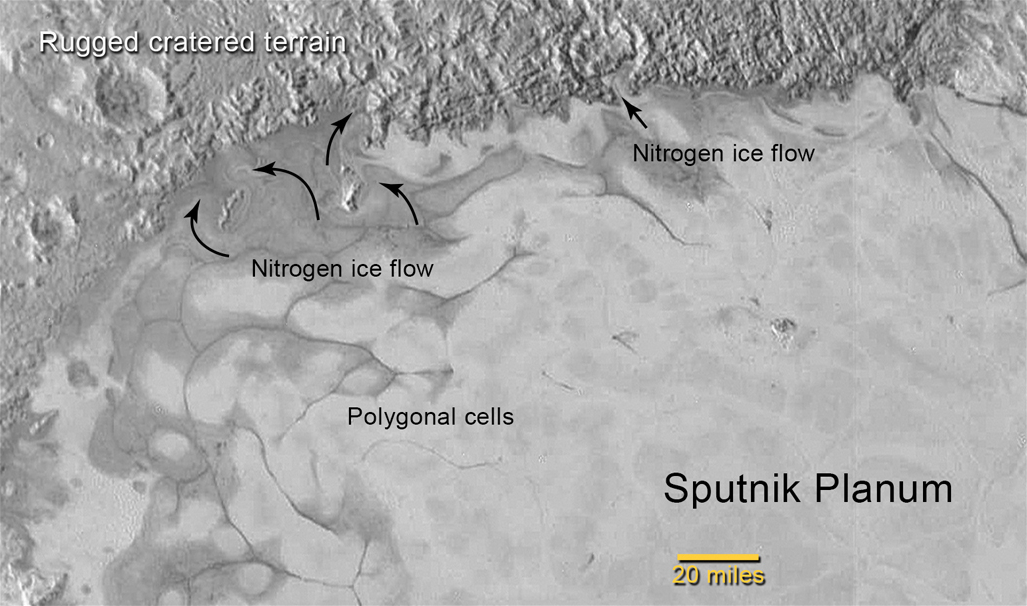 Original caption: In the northern region of Pluto’s Sputnik Planum, swirl-shaped patterns of light and dark suggest that a surface layer of exotic ices has flowed around obstacles and into depressions, much like glaciers on Earth.